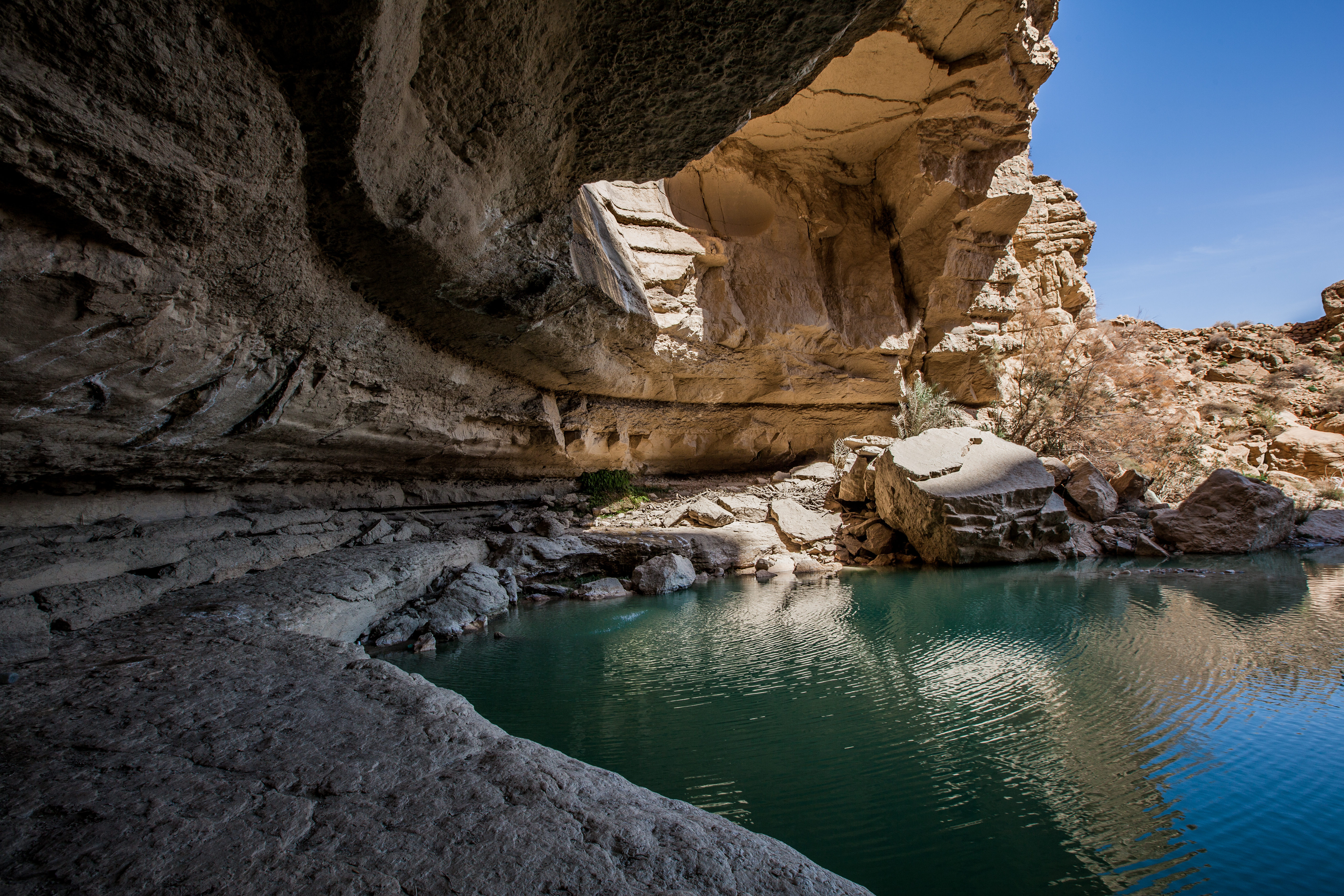 Villag of Djemina, Biskra Province, Algeria